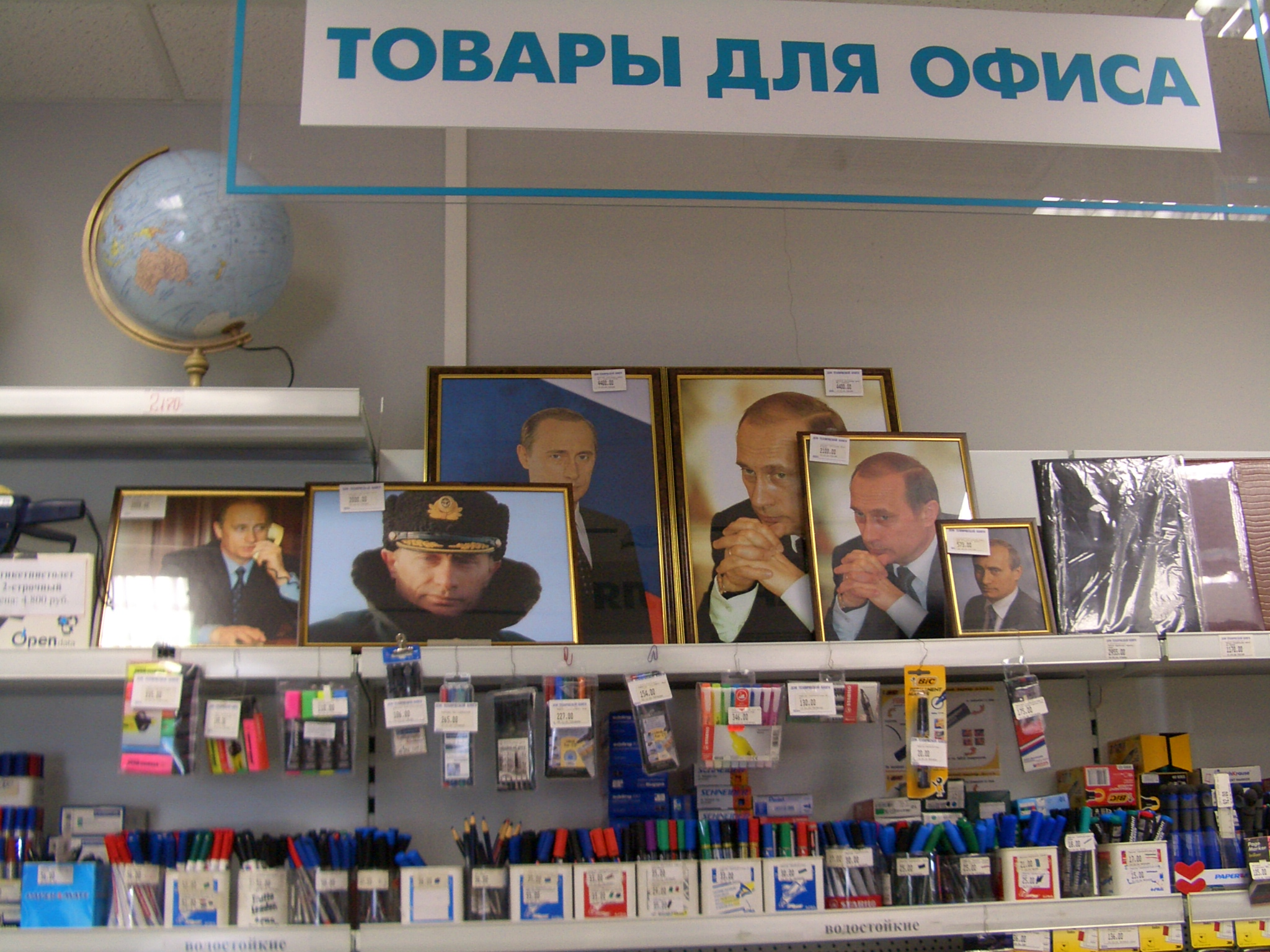 The "Office Products" section in a Moscow book store carries all essentials for effective office work.